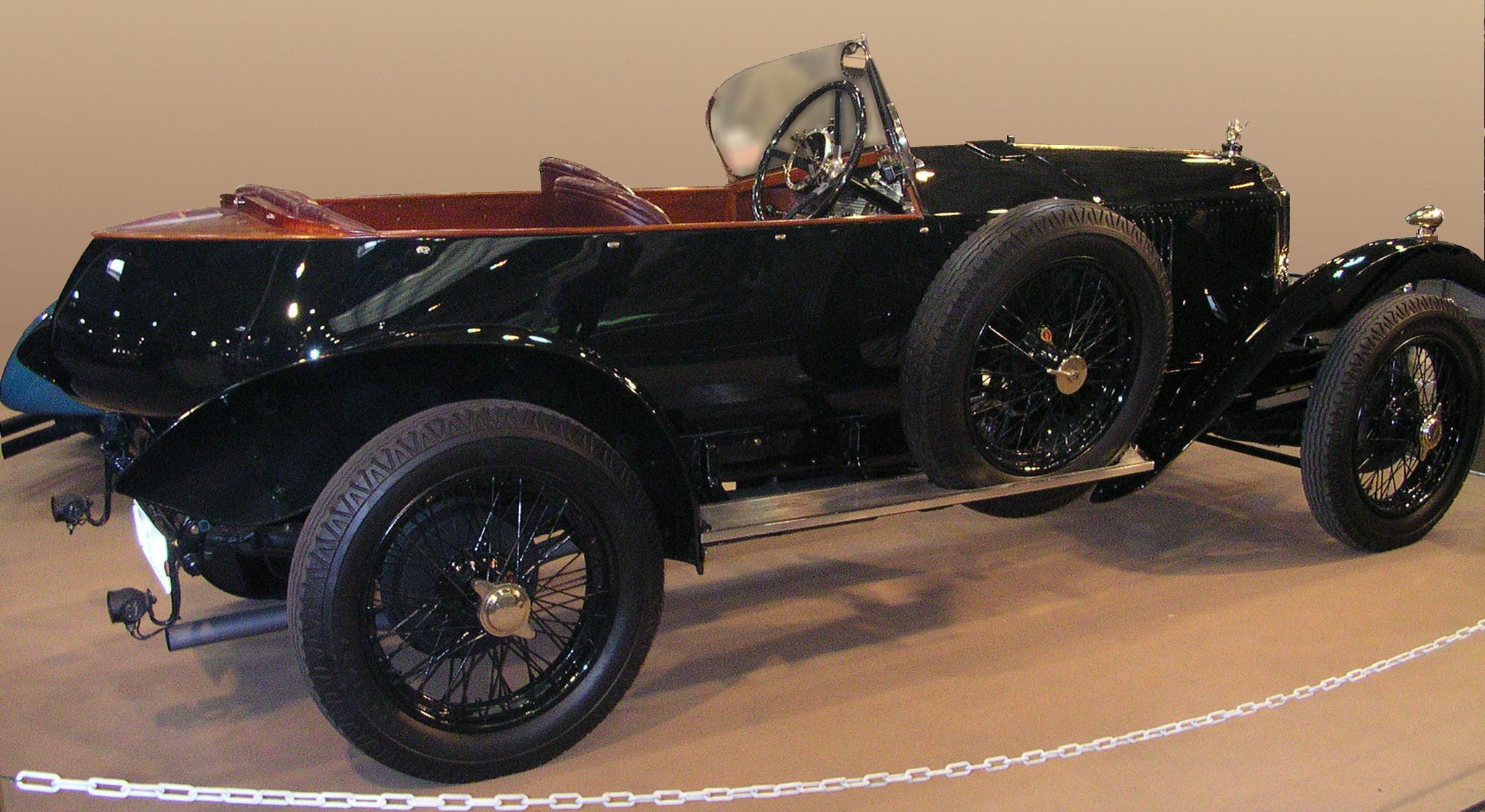 Essen Techno-Classica 2007, Vauxhall 30-98 Wensum Tourer, built 1924, 4 cilinder, 4250 cc, 4 speed gearbox, only 599 Vauxhall 30/98 were built, only 11 4seater Wensum tourer are recorded, this one was originally sold to Australia